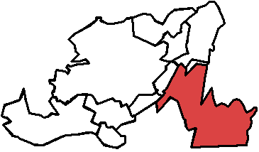 Maps based on images by Earl Warren, from the 2007 elections